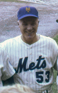 New York Mets coach Eddie Yost at camera day 1969, Shea Stadium.